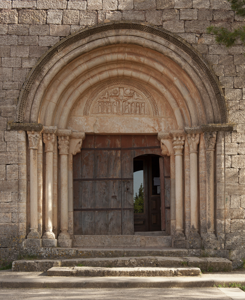 Església Santa Maria de Siurana; Siurana, Catalunya, Tarragona, Spain; pórtico; Ref: PM_090538_E_Siurana; façana nord; Photographer: Paul M.R. Maeyaert; © Paul M.R. Maeyaert; ; Cultural heritage; Cultural heritage/Romanesque; Europeana; Europe/Spain/Siurana